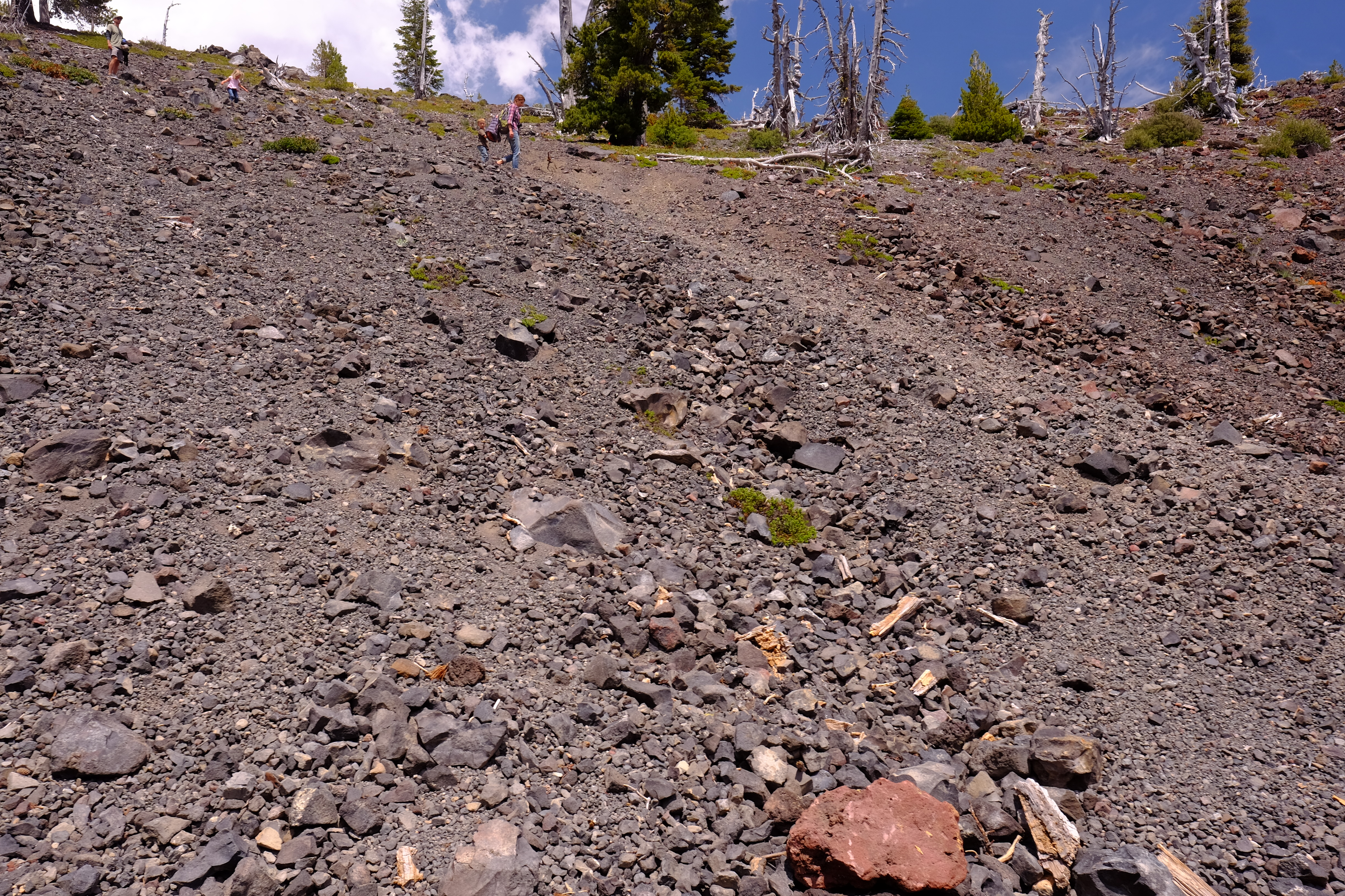 View inside the volcanic crater of Wizard Island on Crater Lake, Oregon, US.